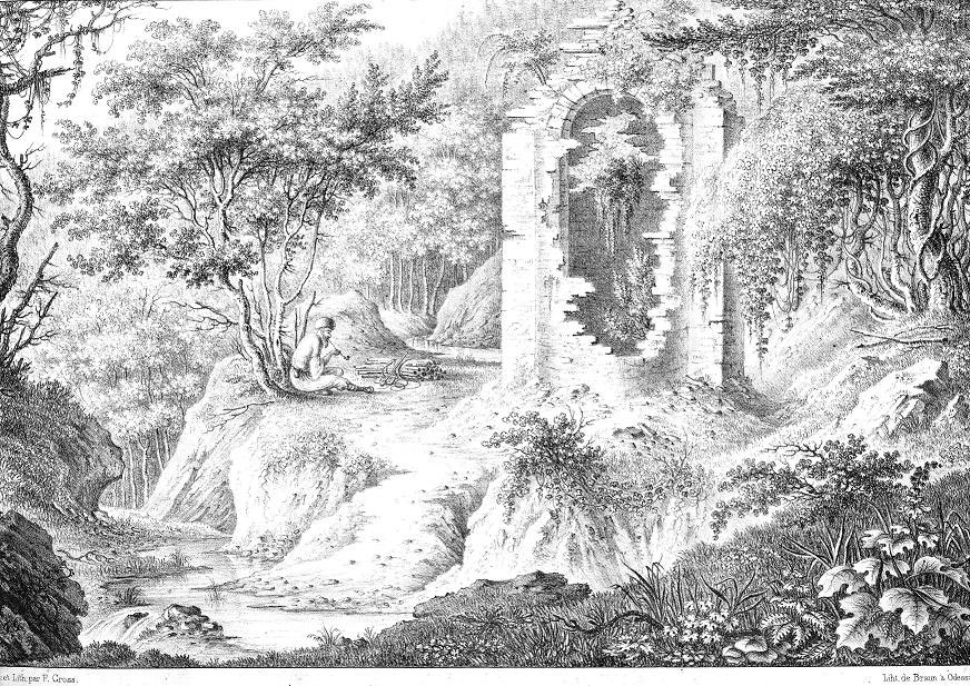 Theodore Gross. "Monastery of St Andrew", Crimea. 1830